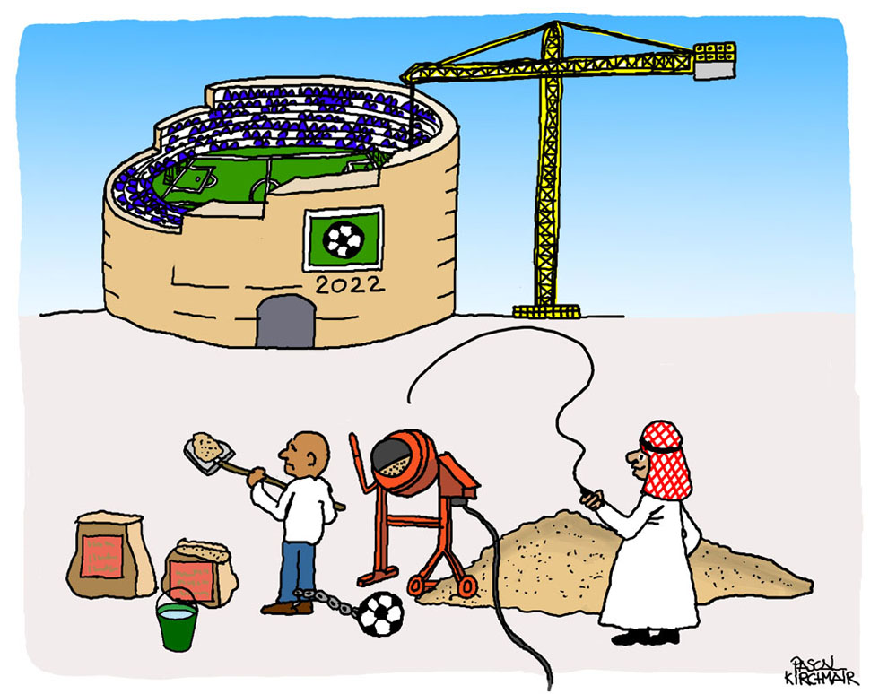 Cartoon about slave labour on the construction sites in Qatar before the 2022 World Cup.